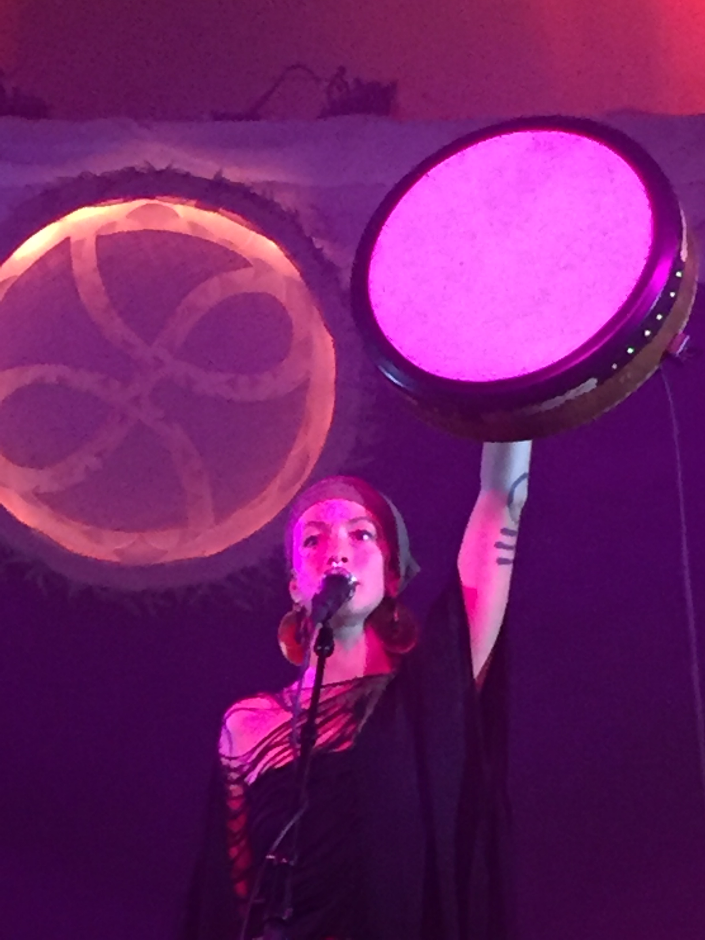 Leah Song holding bodhrán, LEAF Festival, May 11, 2018